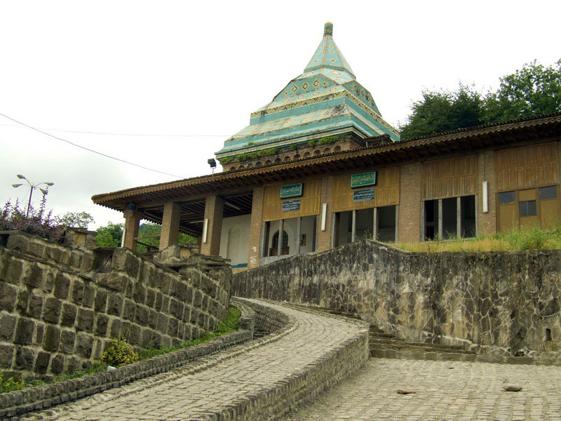 Sheikh Zahed Gilani Tomb. Located in Shekhanor Village near Lahijan, Gilan.